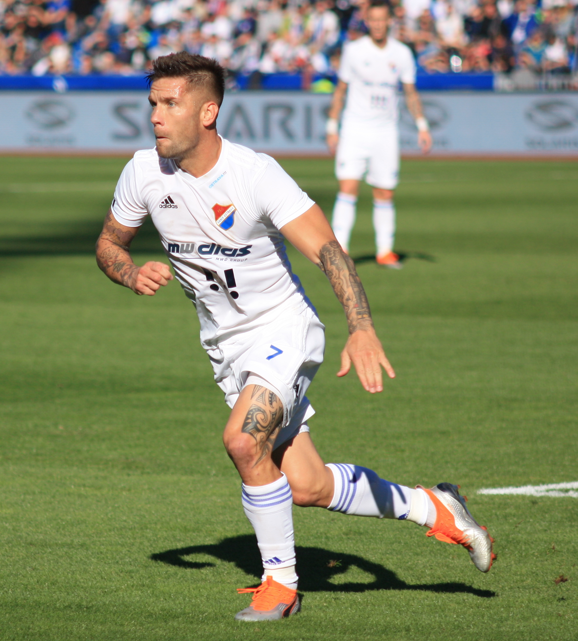 Martin Fillo At Czech First League (Fortuna Liga) match FC Baník Ostrava-SK Slavia Praha played on 30. 9. 2018